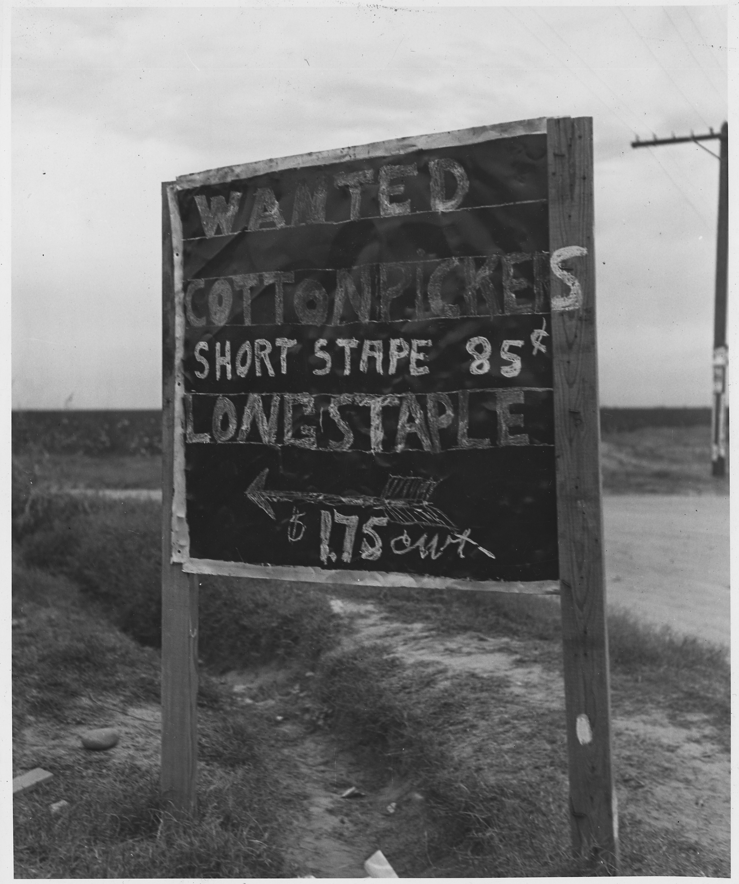 Scope and content: Full caption reads as follows: On Highway 84, Pinal County, Arizona. Ranch advertisement during cotton harvest. Highway signs reading "cotton pickers wanted' are but the last stage in the process of attracting seasonal laborers to Arizona from areas as remote as Yakima Valley, Washington, and the bootheel of Missouri.